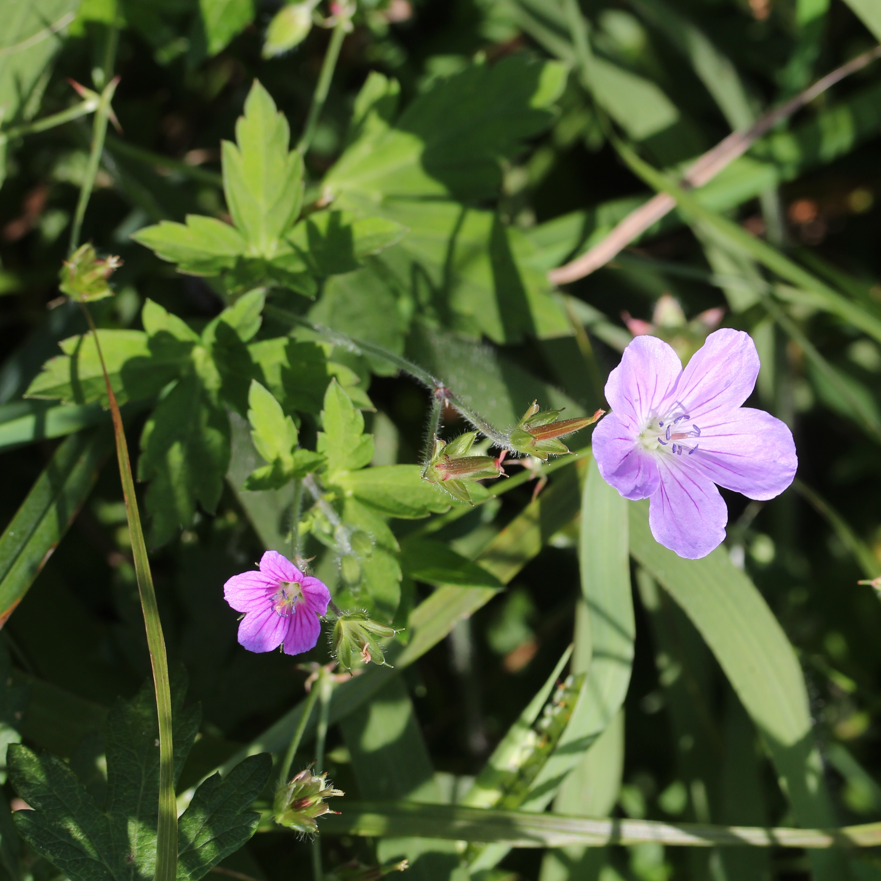 Geranium thunbergii (left) and Geranium yesoense var. nipponicum (right), in Mount Ibuki, Maibara, Shiga prefecture, Japan.